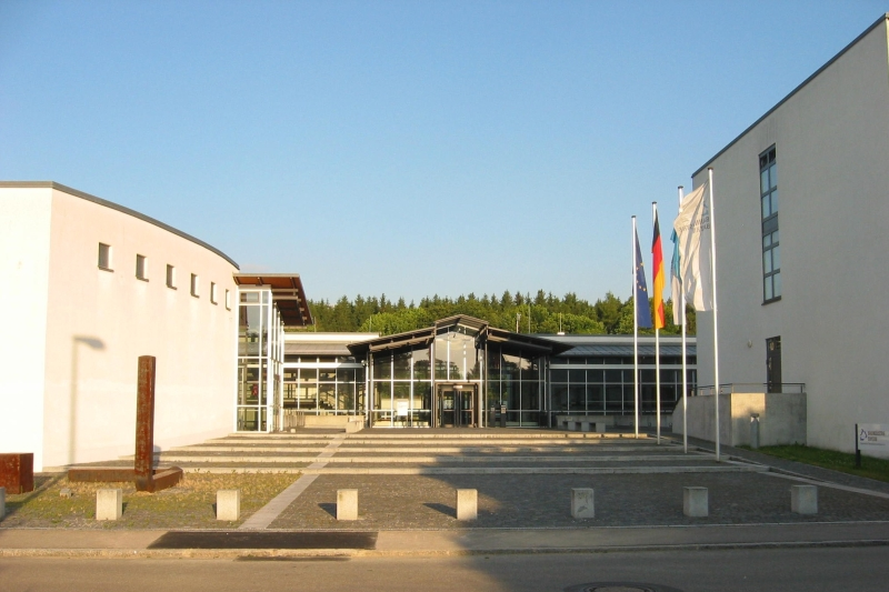 Bauindustriezentrum in Stockdorf, 1999